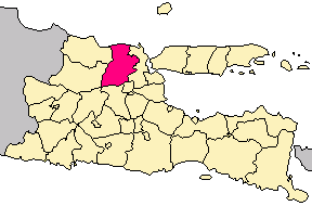 Location of Lamongan county in East Java province, Indonesia